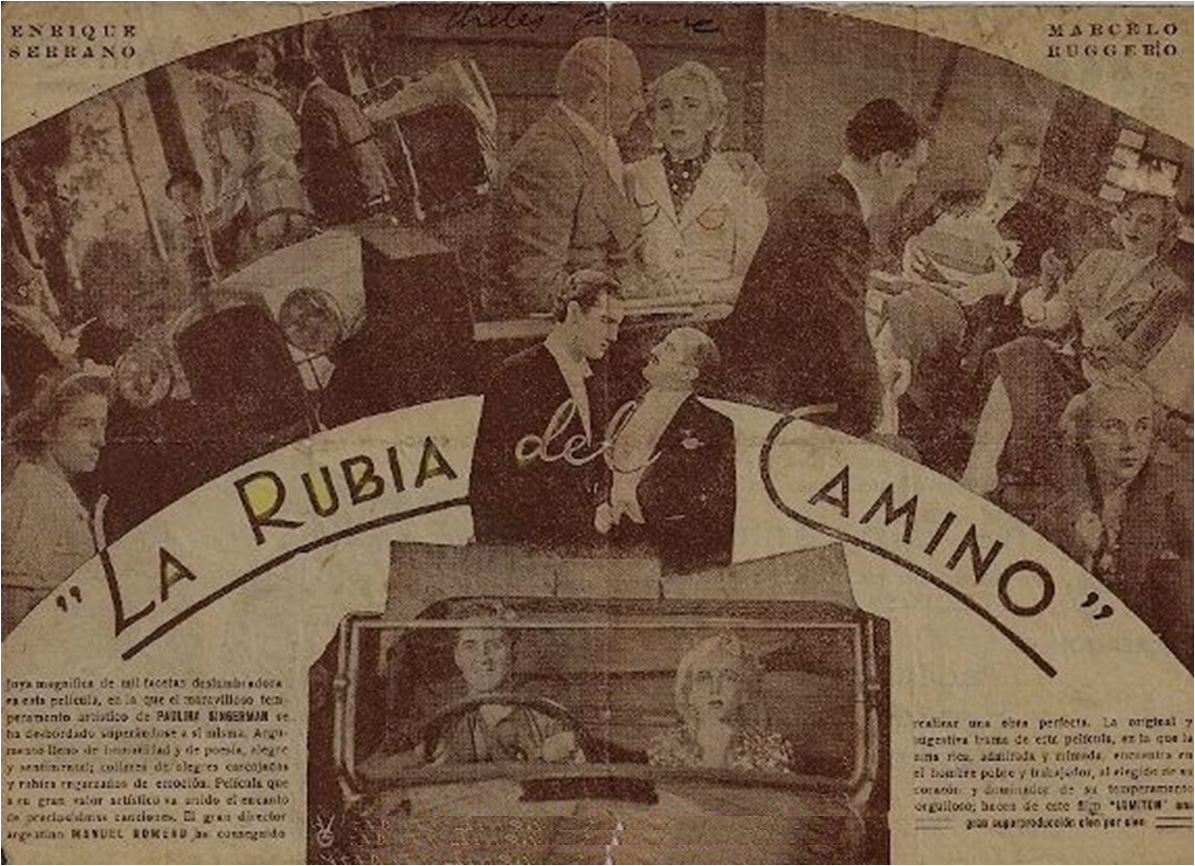 Poster for the romantic comedy La rubia del camino (The Blonde on the Road, 1938)